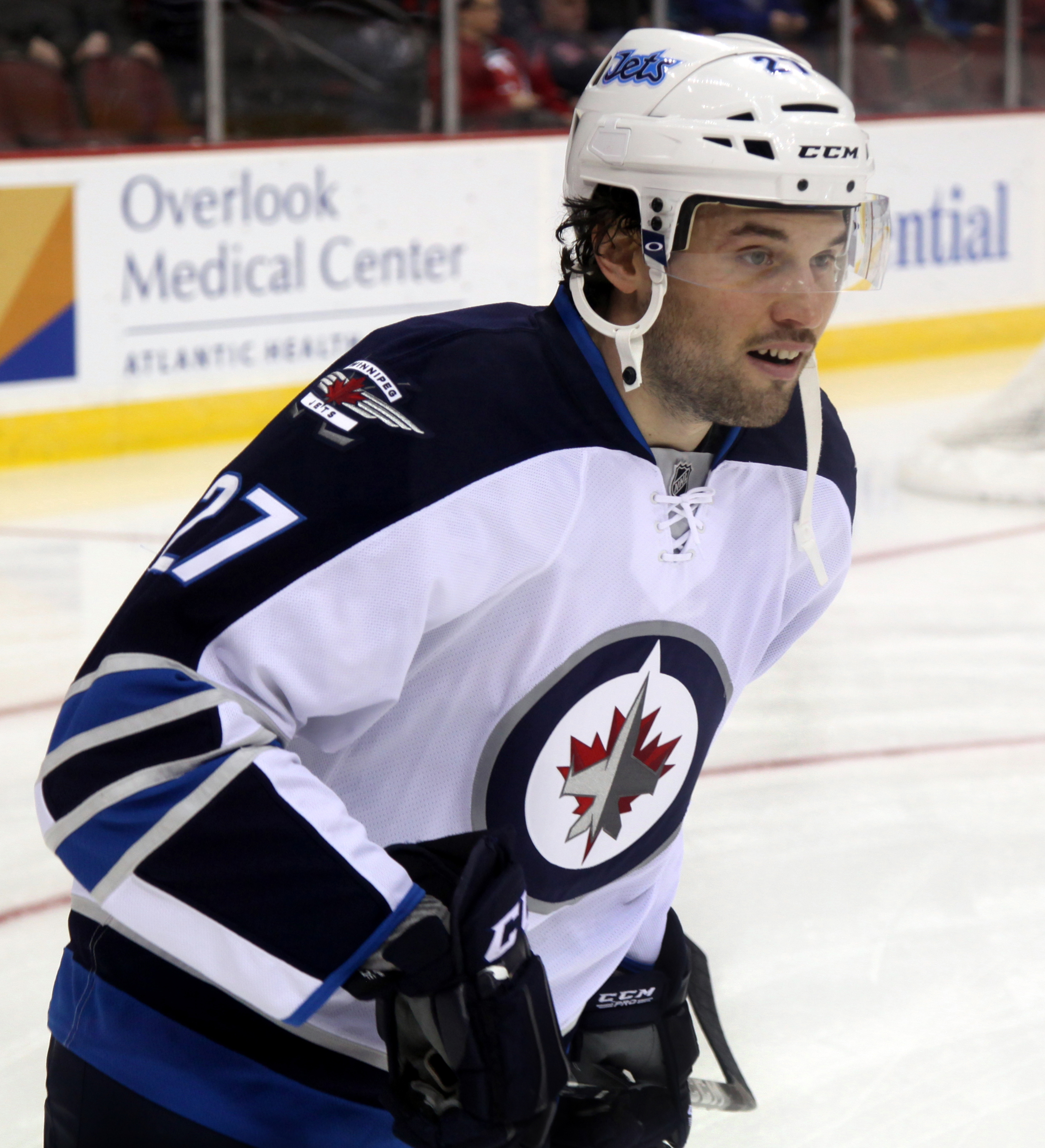 Eric Tangradi as a member of the Winnipeg Jets.